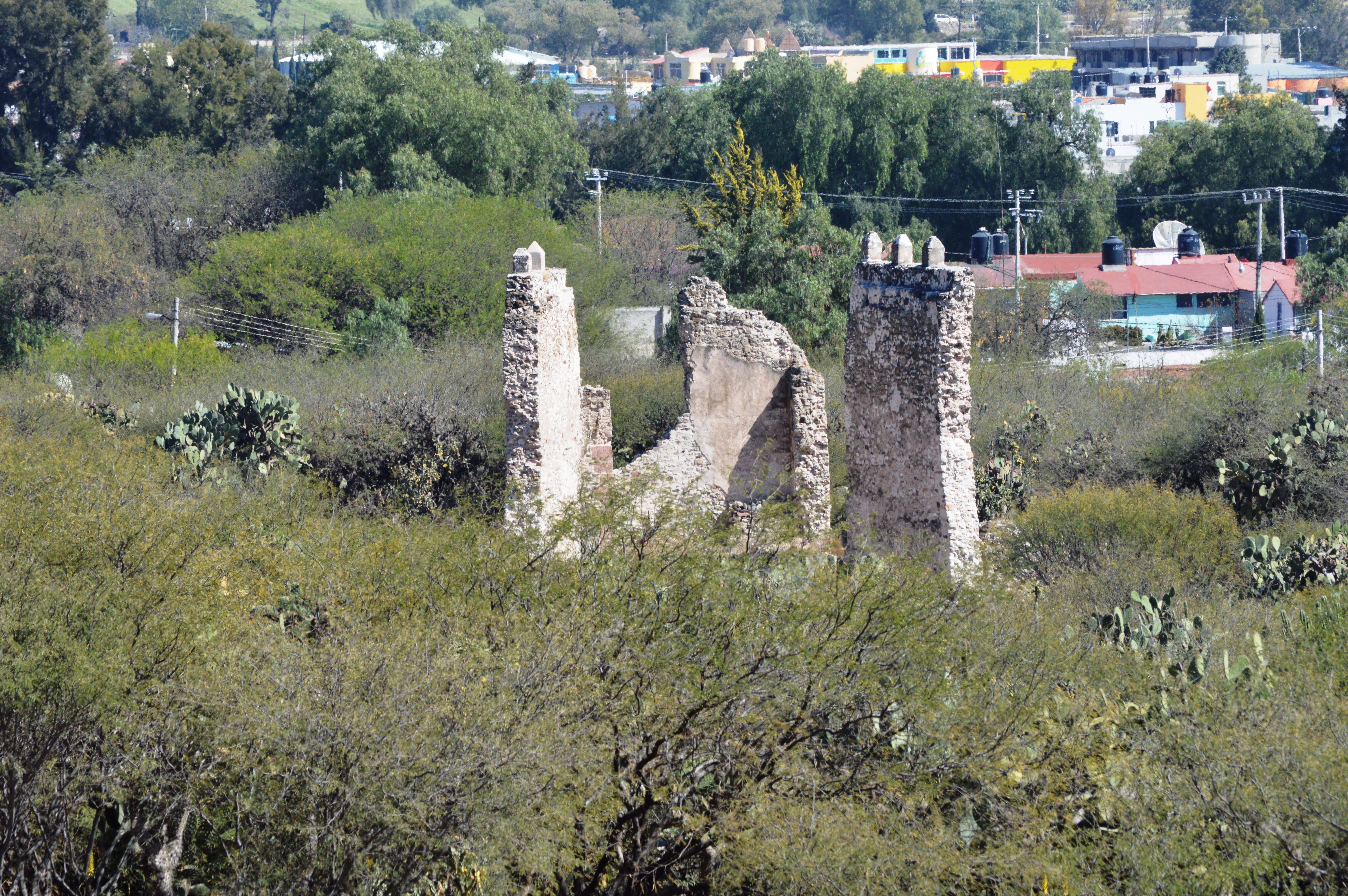 Ruins of chapel at the Tula archeological site in Hidalgo, Mexico